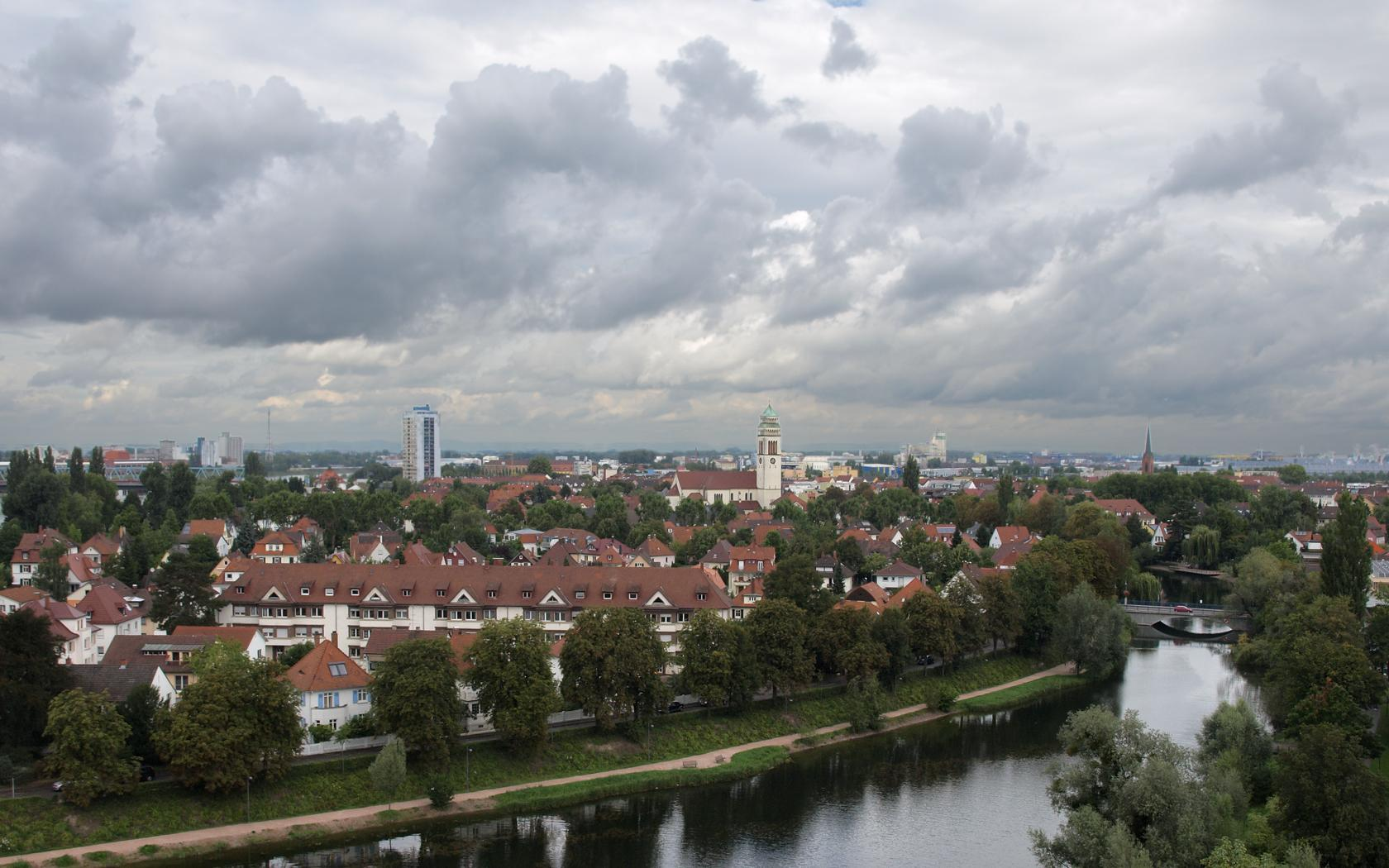 Kehl (Germany), View on the town, photo 2010